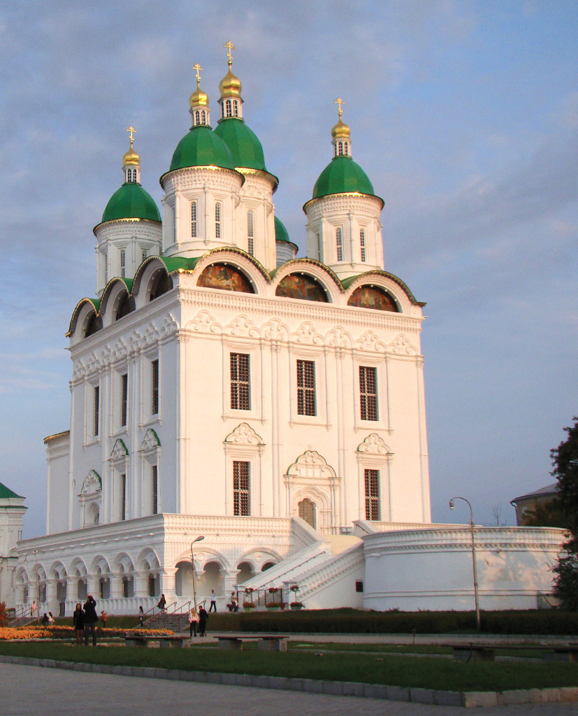 Dormition Cathedral in the Kremlin (1700–1710)